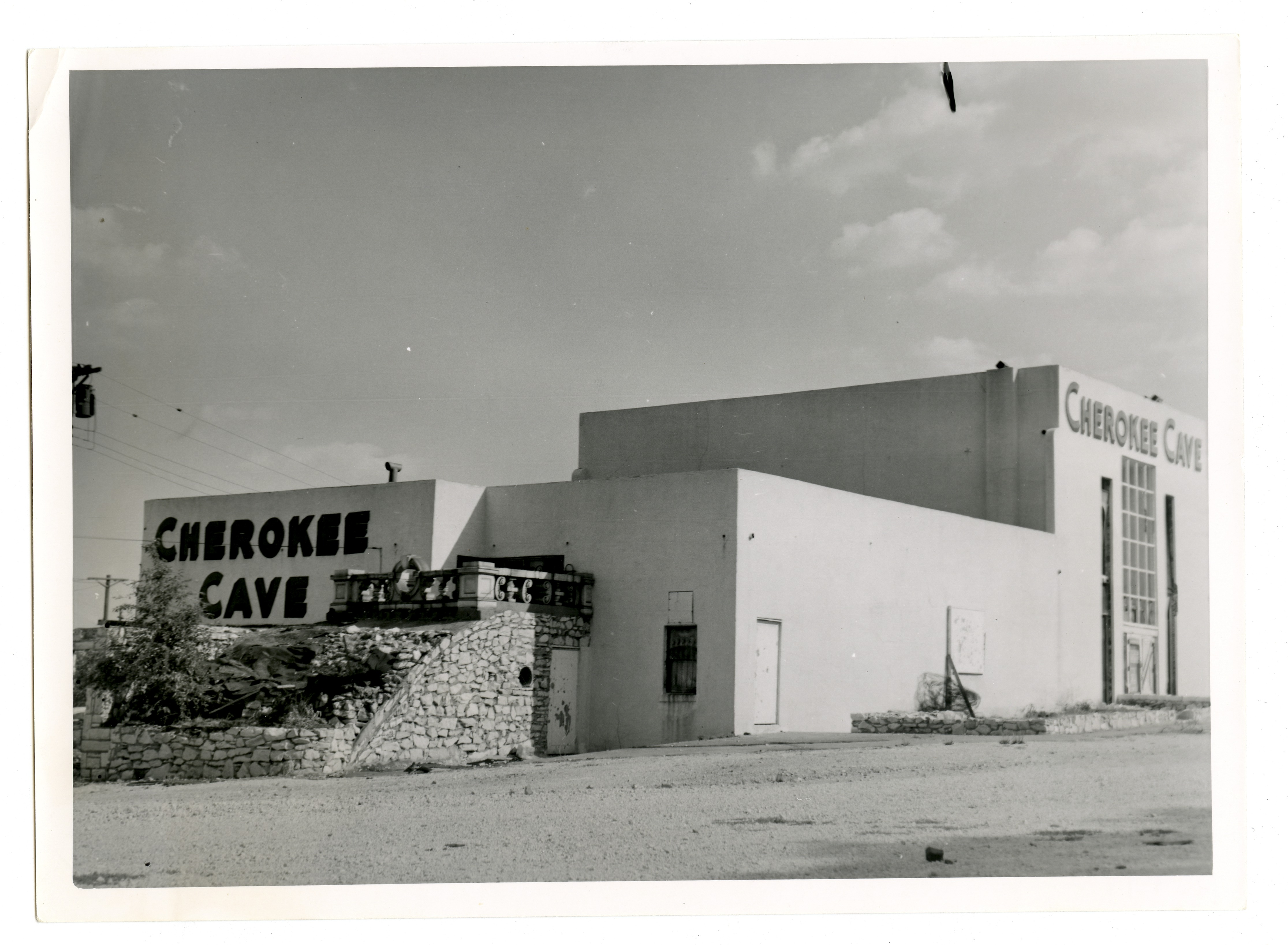 Horizontal, black and white photograph of a side view of a commercial building with a large window is centered above the front entrance of the building. The left side of the building has an arched stone addition with molded cement railing above. "Cherokee Cave" is painted on the left side of the building.